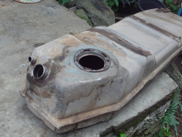 This is picture Opel Blazer DOHC Fuel Tank, Capacity 48 Liter Gasoline